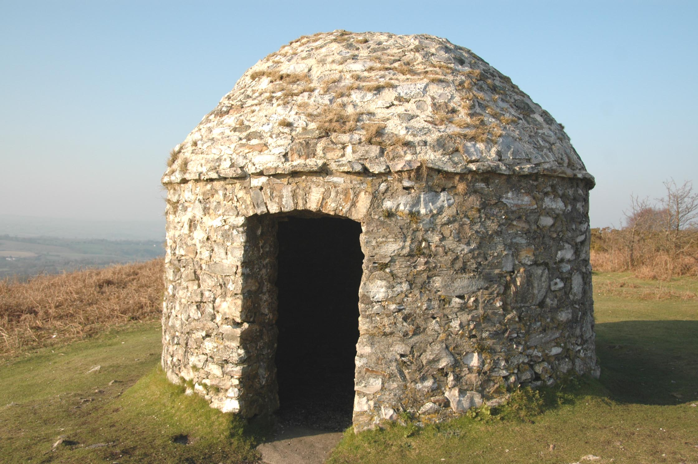 A stone building, a signal station, at Culmostock Beacon in Devon, UK, built in 1588 to enclose a wooden pole, which protruded through the roof to support one or more fire baskets. This is one of a chain of signal stations along England's southern counties - but the only remaining stone building - the purpose of which was to warn of the Spanish Armada being sighted. There is an adjacent Ordnance Survey (the UK's official mapping agency) trig point with the bench mark S.3745.